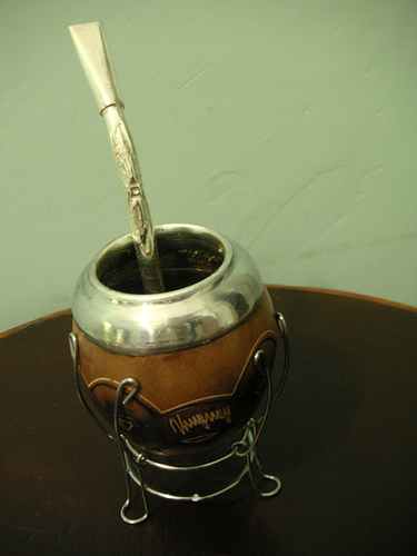 Uruguayan "mate" with a silver metalic straw.